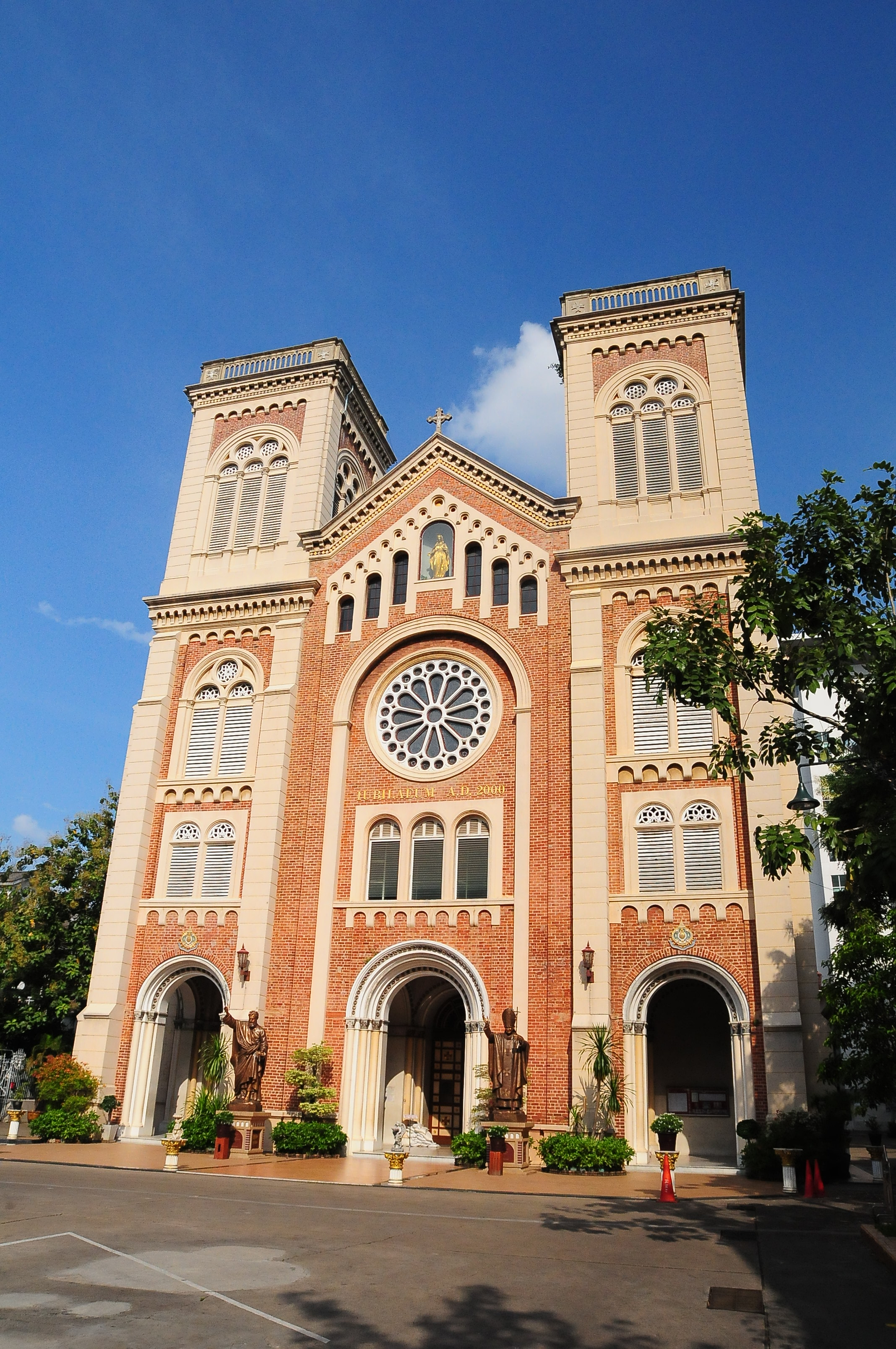 Assumption Cathedral, Bang Rak district, Bangkok, Thailand